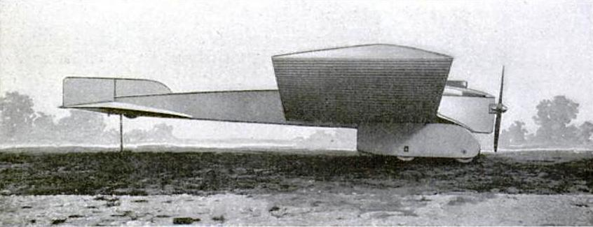 Photograph of the Antoinette Military Monoplane circa 1911